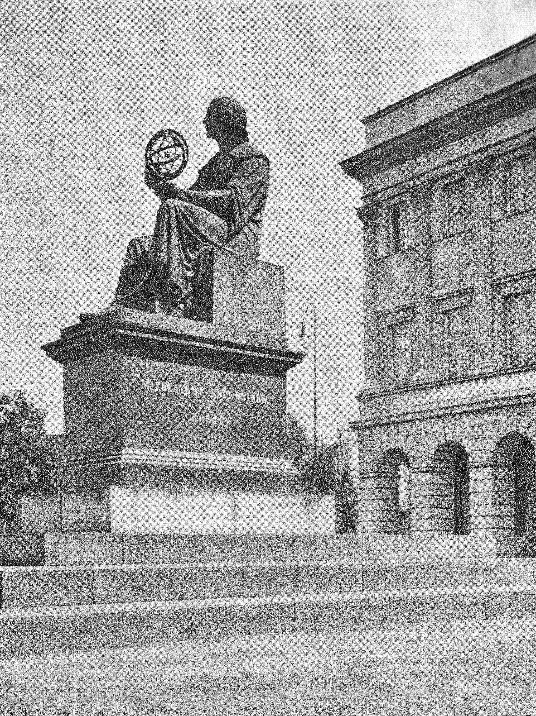 Nicolaus Copernicus Monument in Warsaw